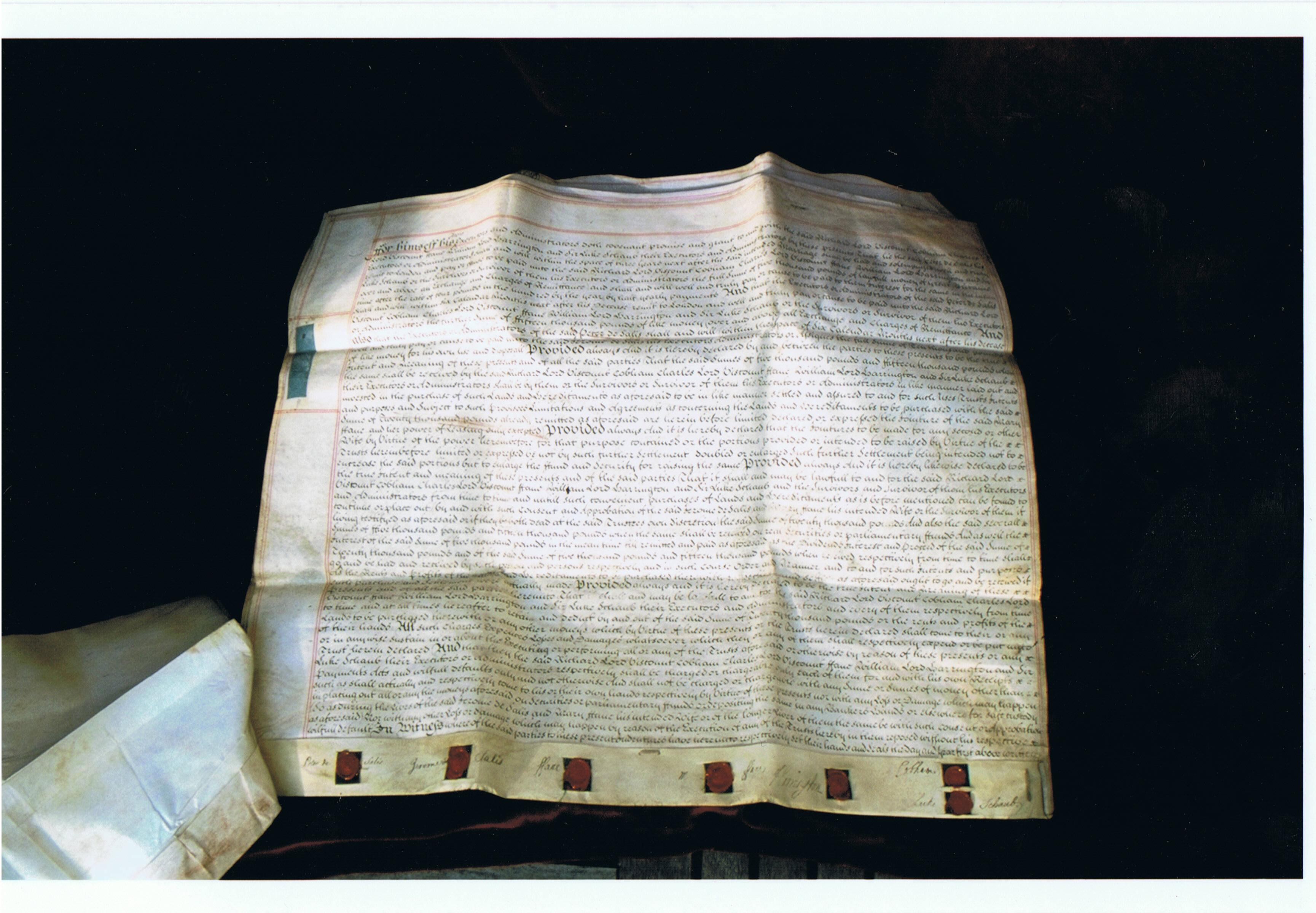 scan (October 2007) of photo (R. de Salis, April, 2006) of 1734 marriage settlement, on vellum, of Jerome de Salis & Mary ffane.Rodolph 17:05, 19 October 2007 (UTC) thumb|center|A retouched version of this image